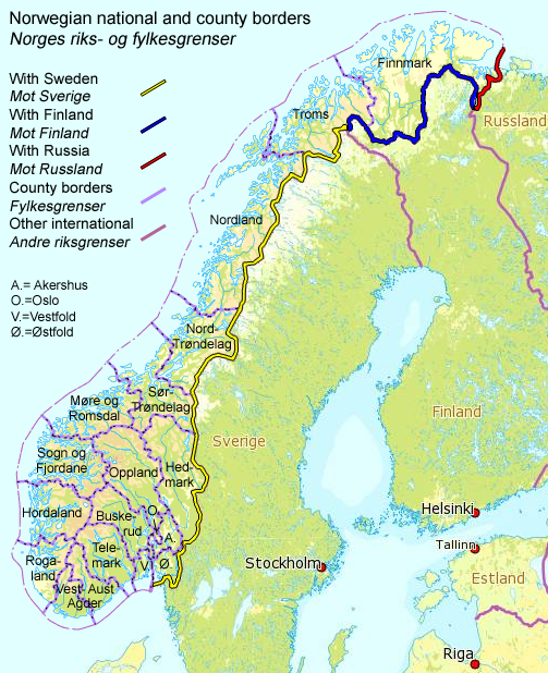 Norway national and county bordersNorsk bokmål: Norges riks- og fylkesgrenser